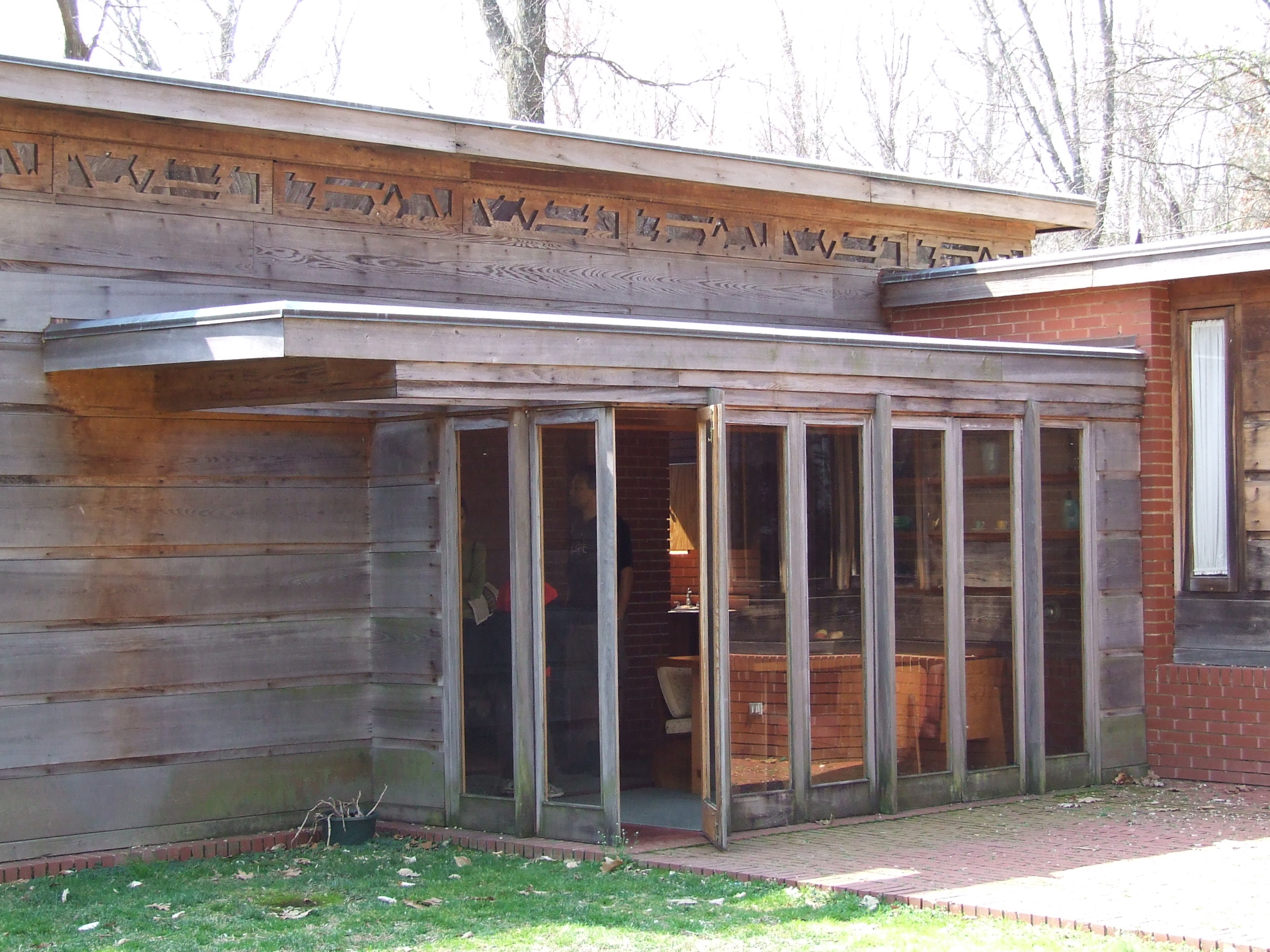 Exterior of Pope-Leighey House, with dining room visible through full-length windows.